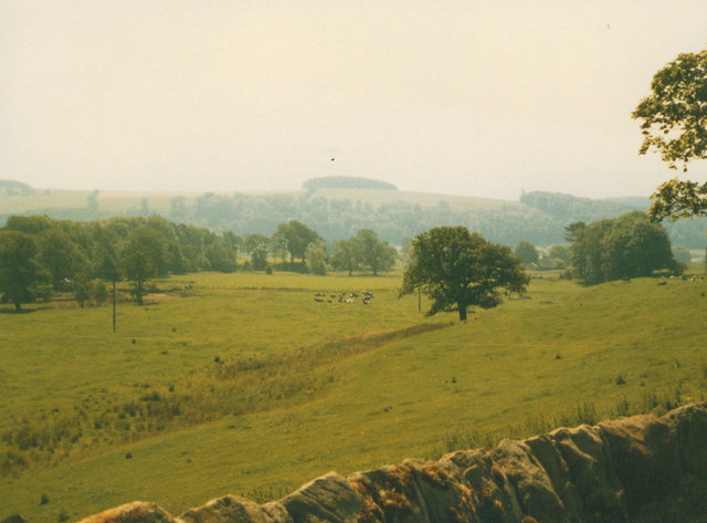 Around Holden Beck A view south-south-east from Bolton Peel, with the line of trees at the left marking the route of Holden Beck.